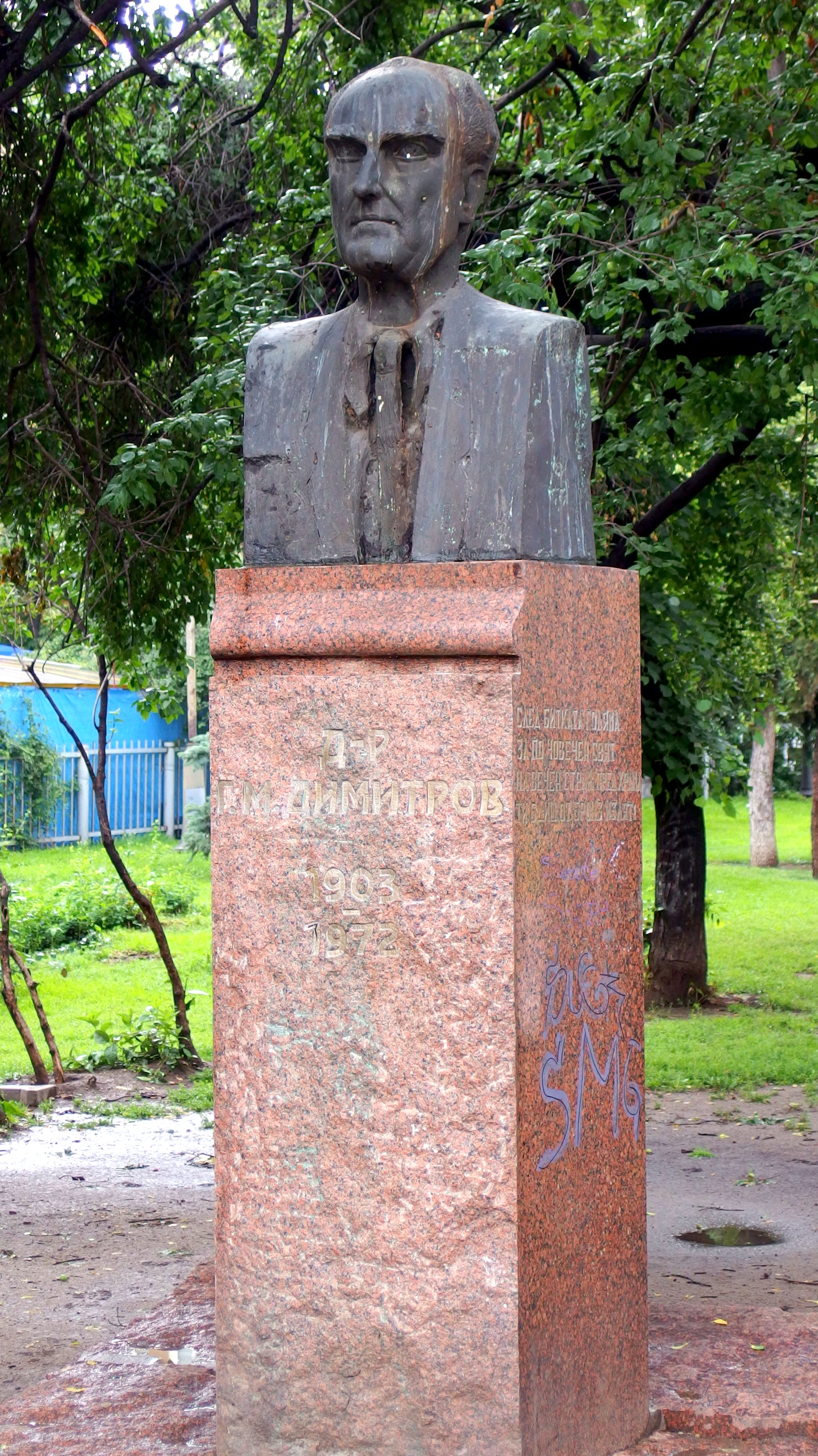 2014-06-16 in Sofia.